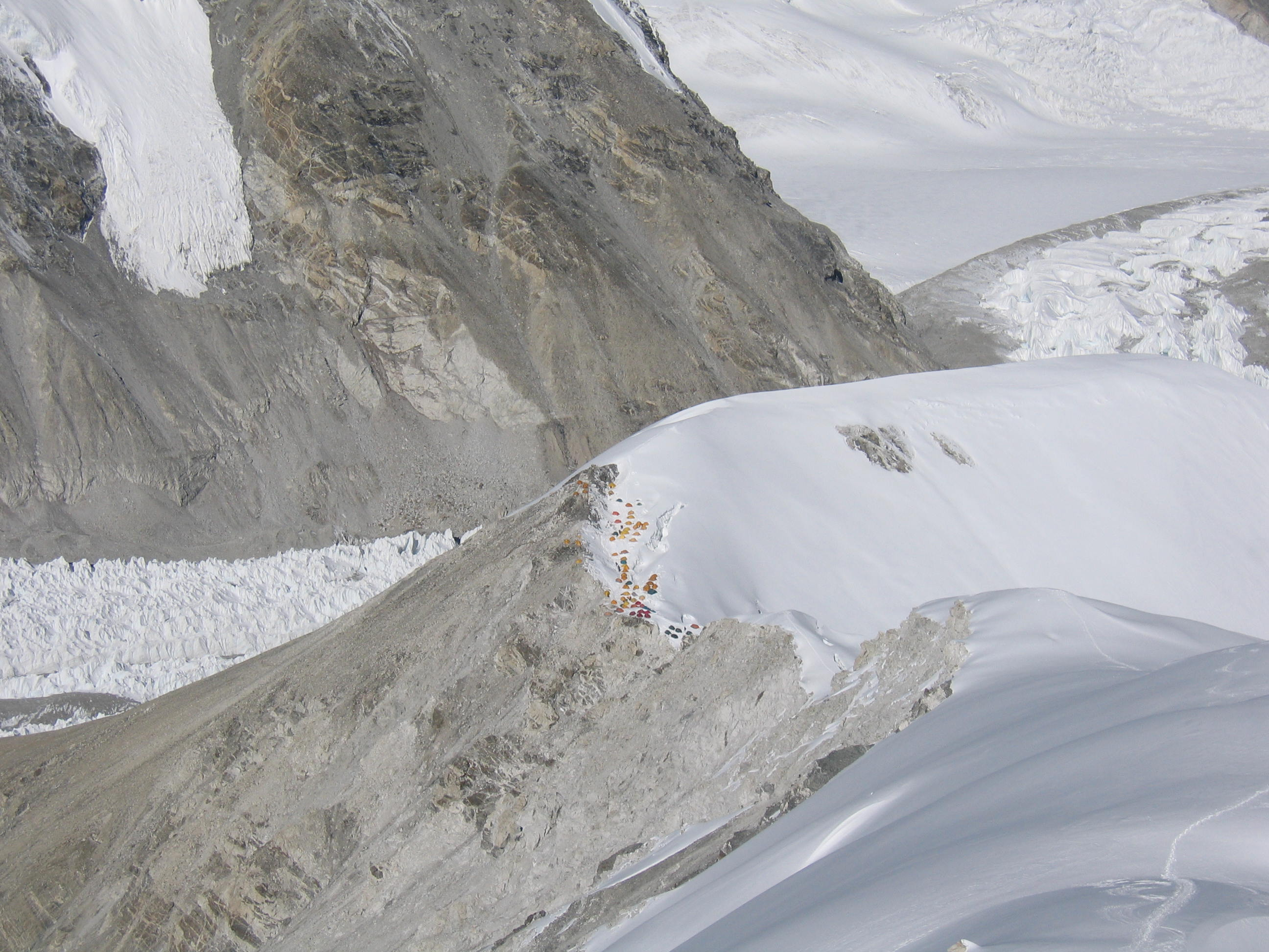 Camp I on the classic route on Cho Oyu, seen from further up the ridge.